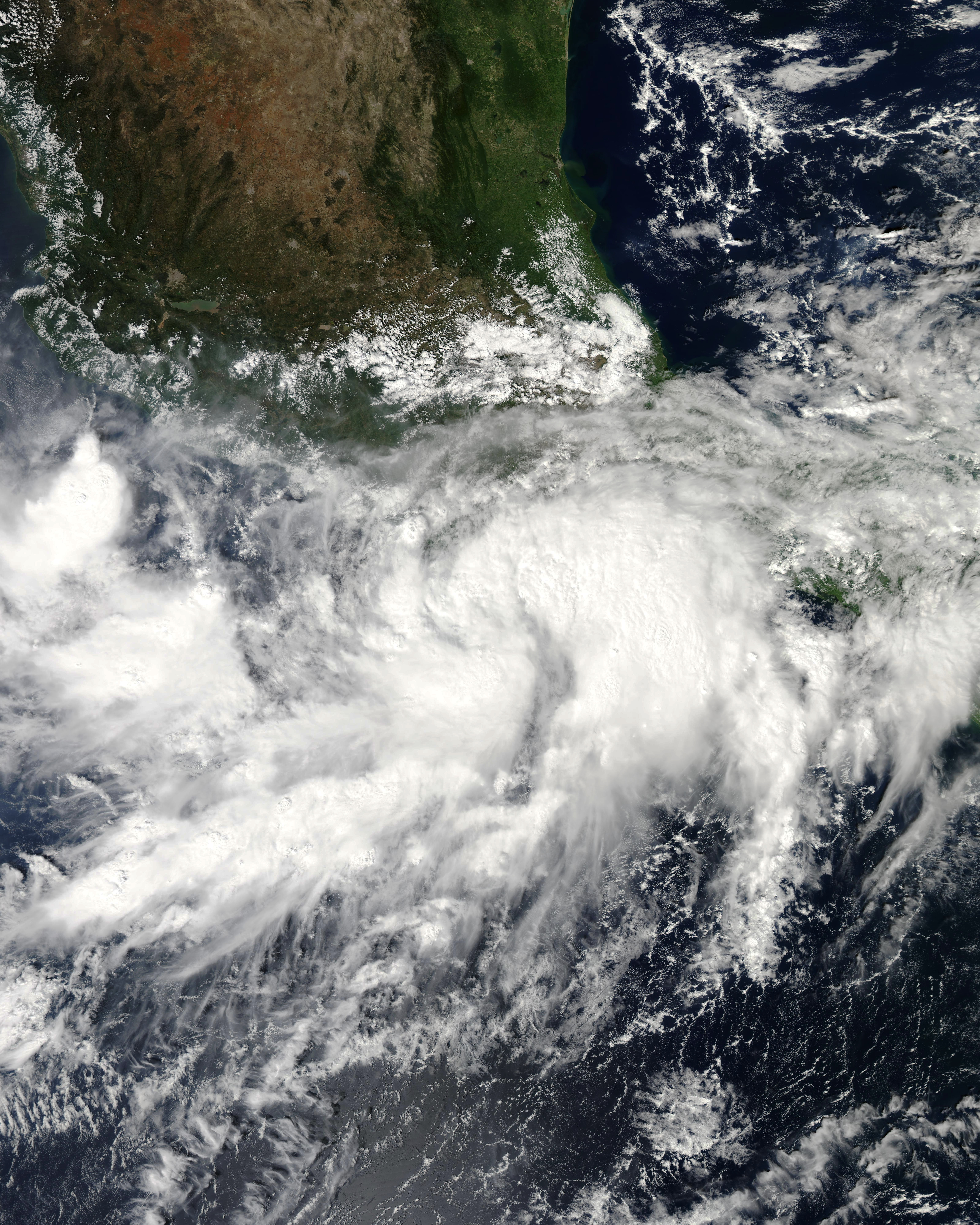 Tropical Storm Trudy (at that time: TD 20E) located South of Mexico.